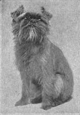 Griffon. (photo, Bowden Bros.)